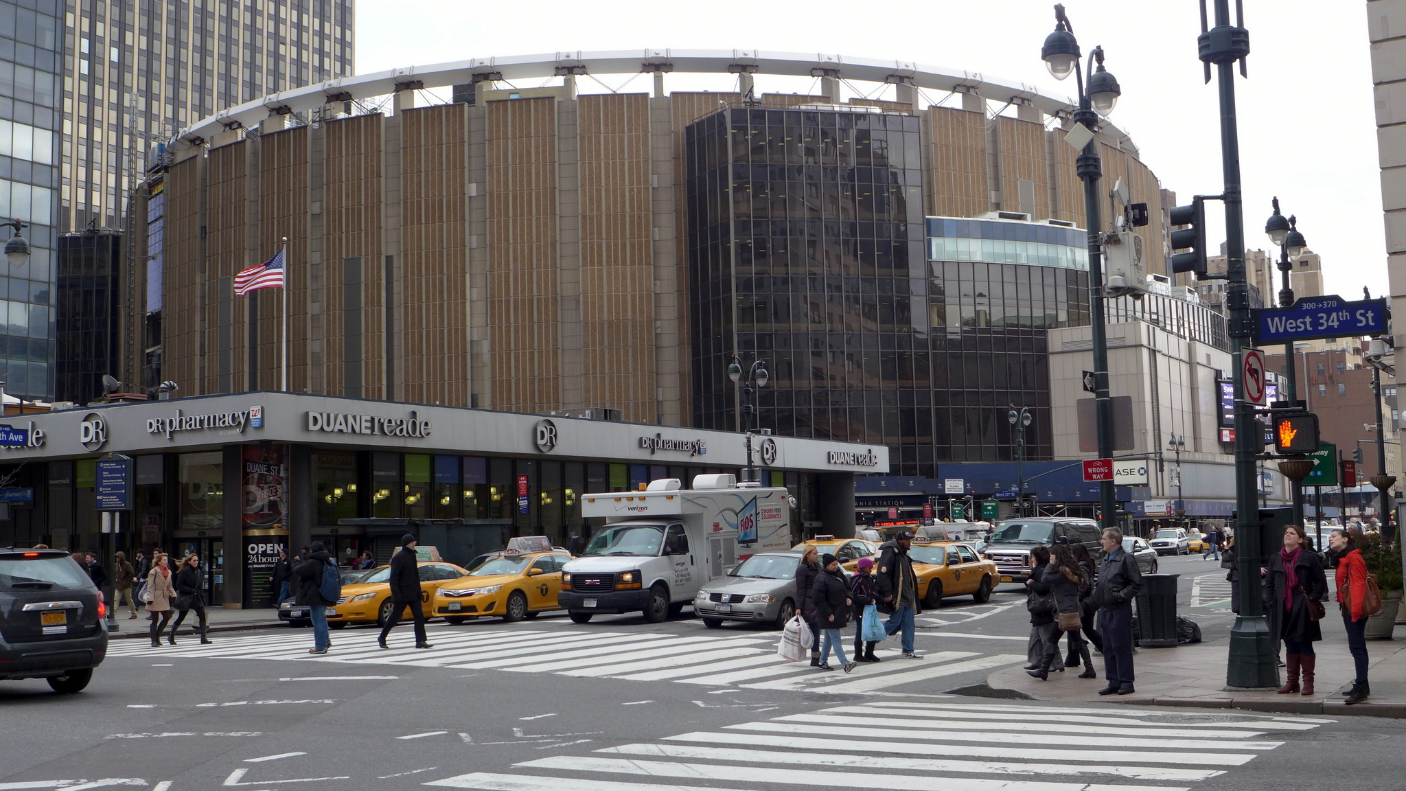 A snapshot of the home of the circus, as well as Ringling Bros.